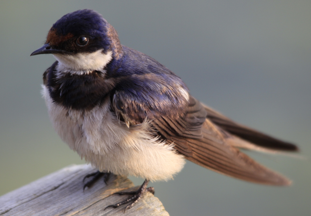 An adult White-throated Swallow at Rietvlei Nature Reserve, Pretoria, South Africa.